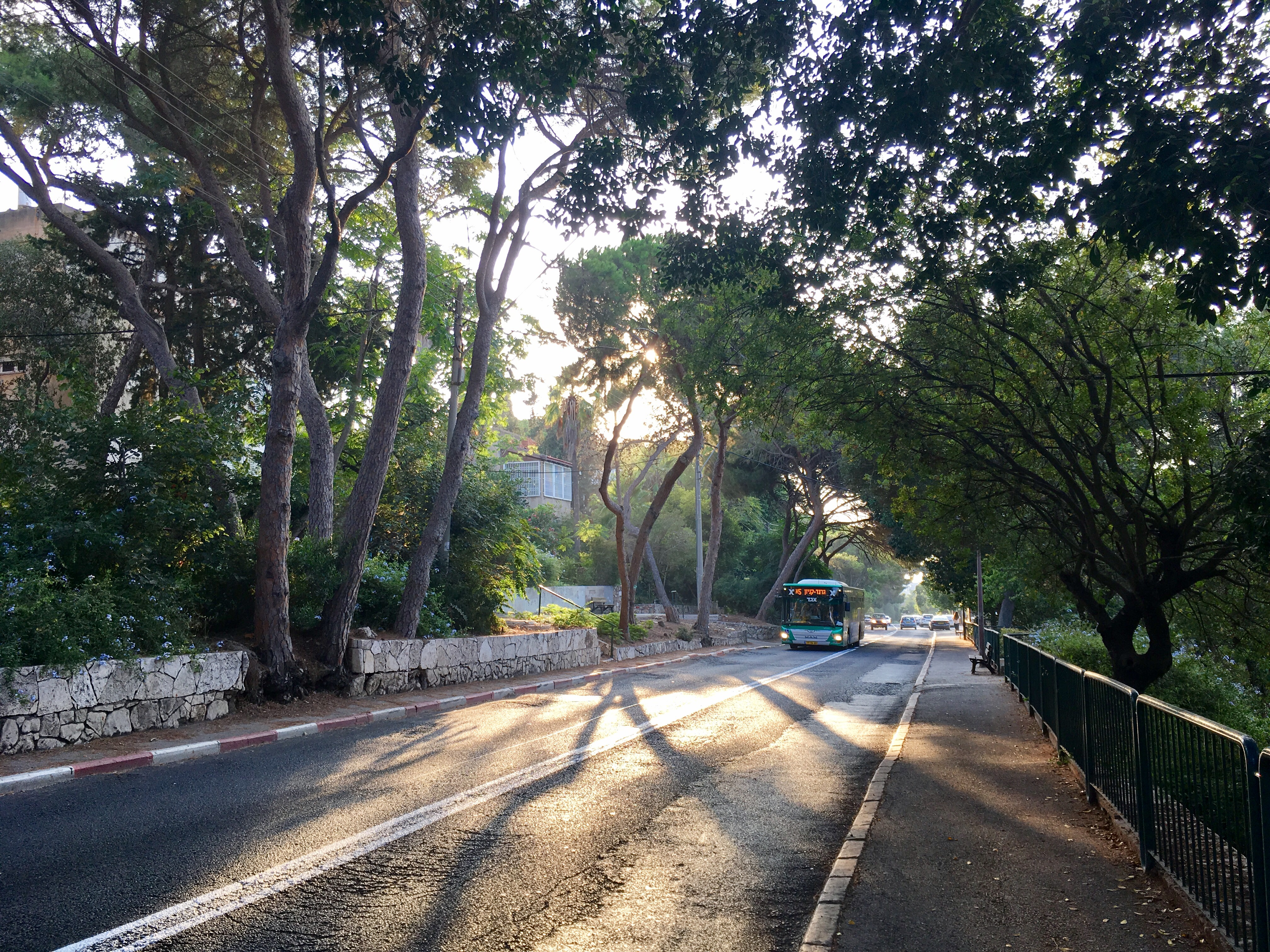 Haifa